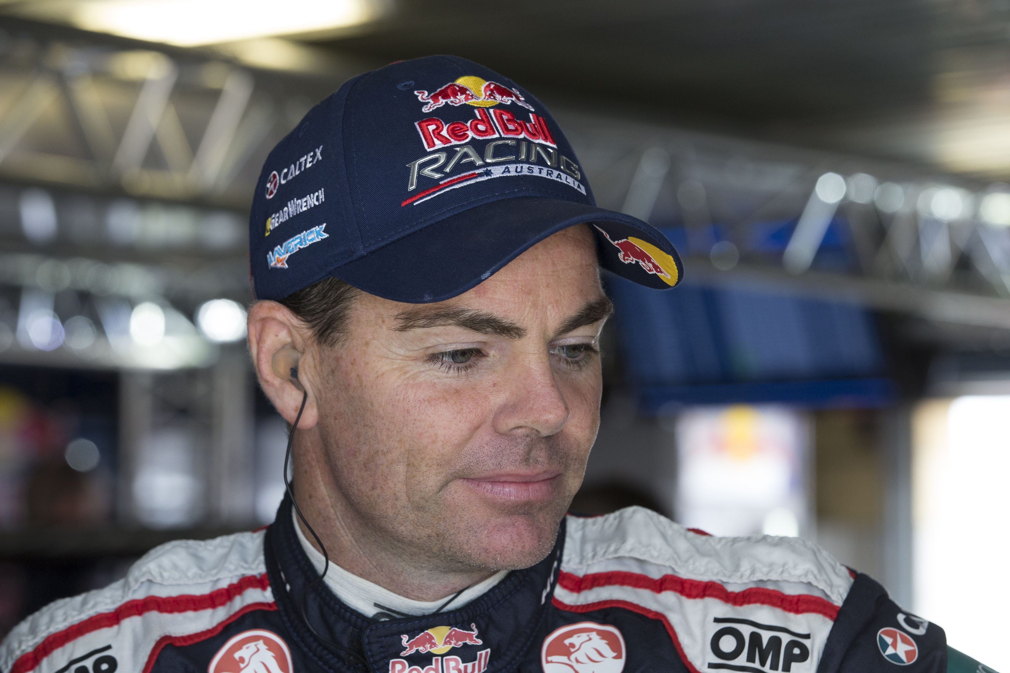 Craig